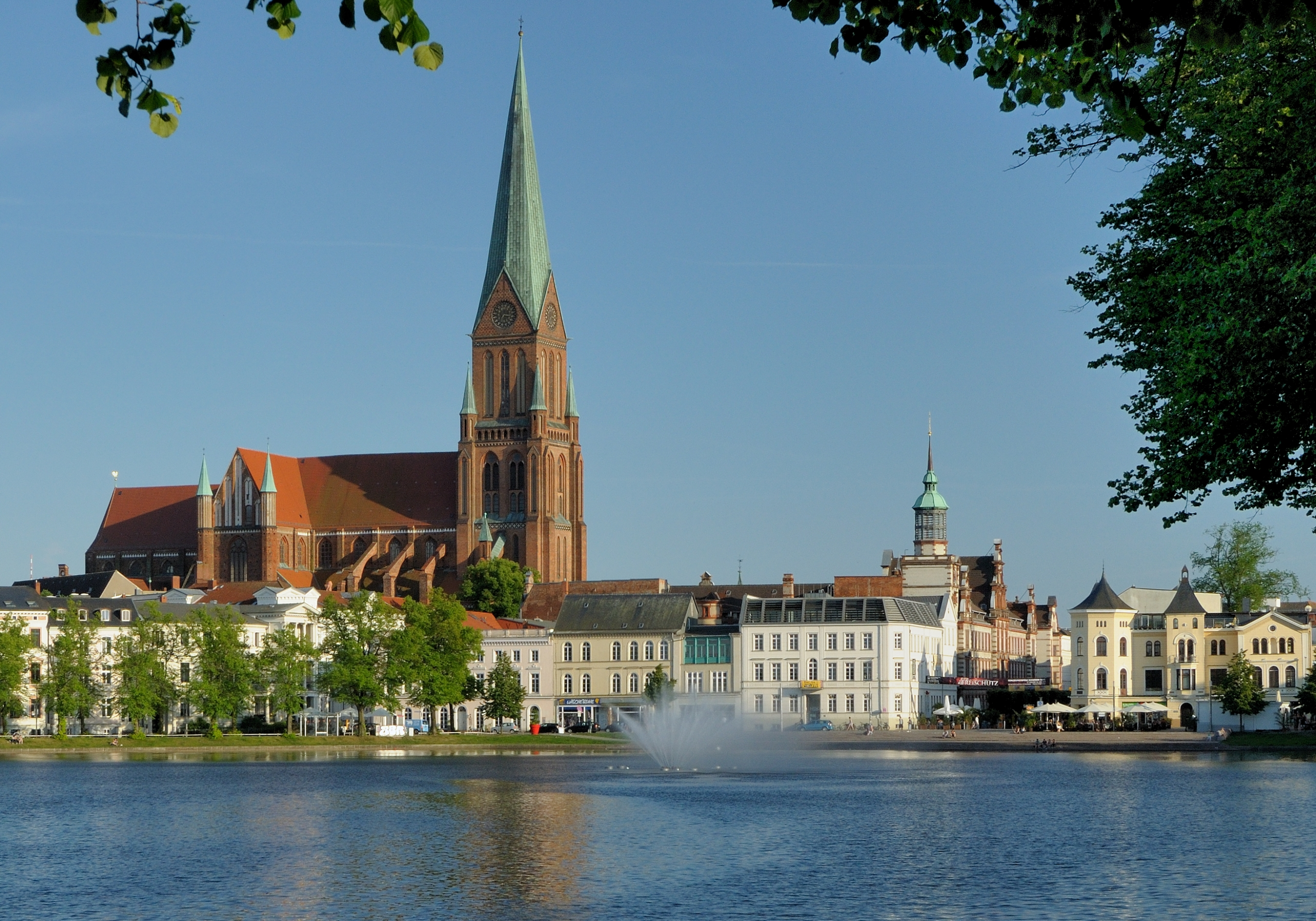 Cathedral in Schwerin, Mecklenburg-Vorpommern, Germany